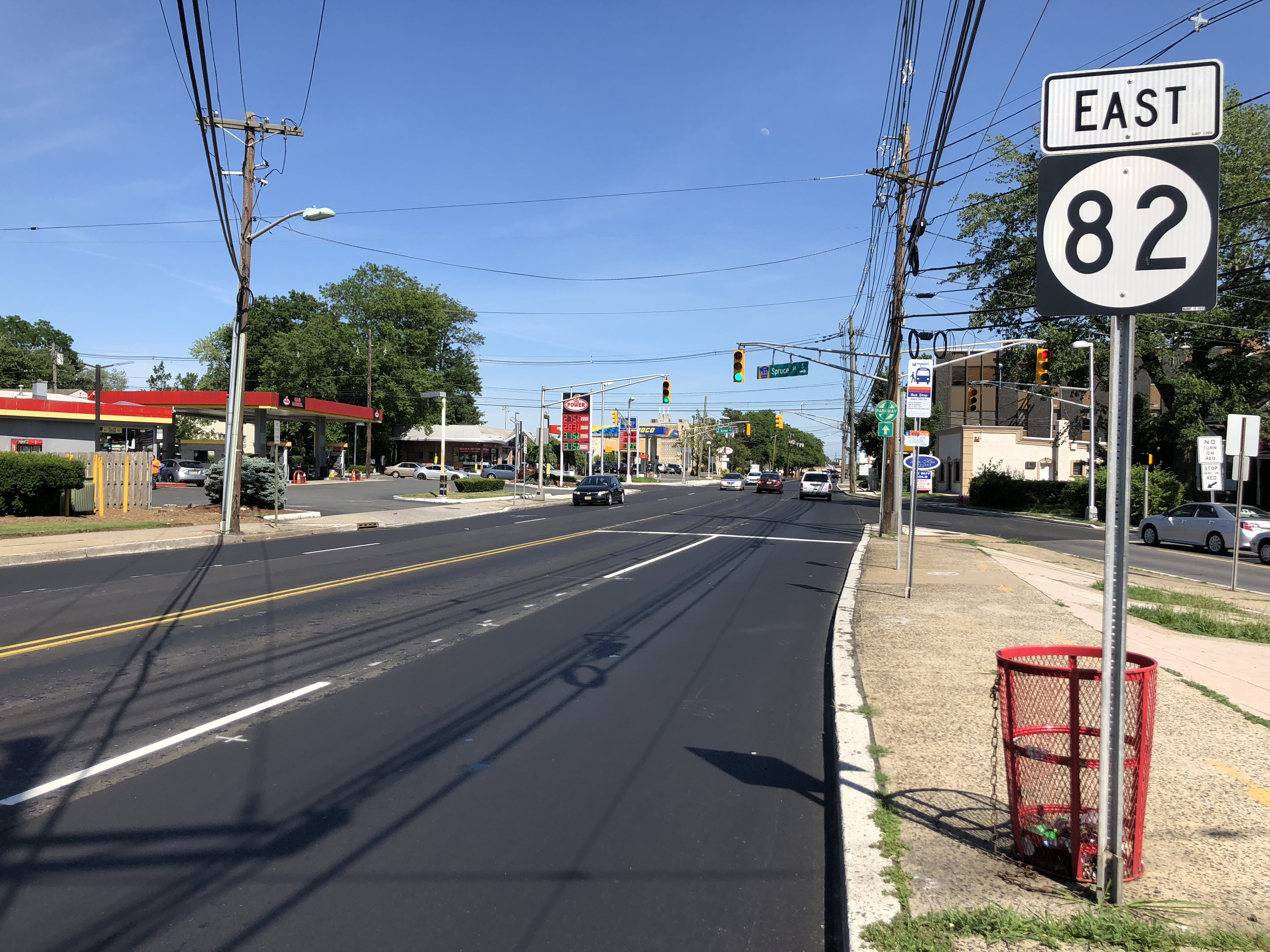 View east along New Jersey State Route 82 (Morris Avenue) at Union County Route 633 (Burnet Avenue/Spruce Street) in Union Township, Union County, New Jersey